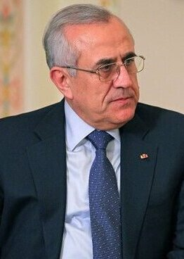 Michel Suleiman 2012